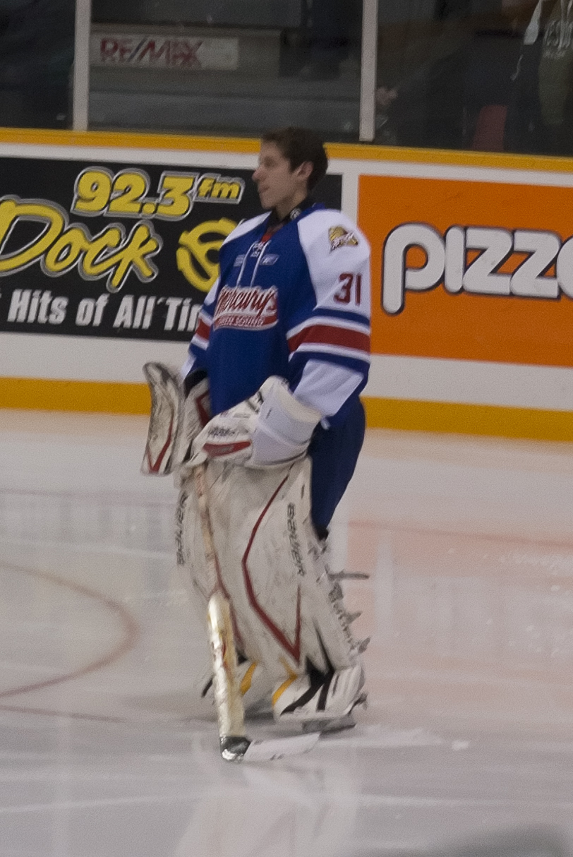 Jordan Binnington with the Owen Sound Attack, prior to a game against the Sarnia Sting